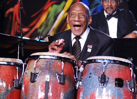 Percussionist Candido Camero playing at a concert in 2008.